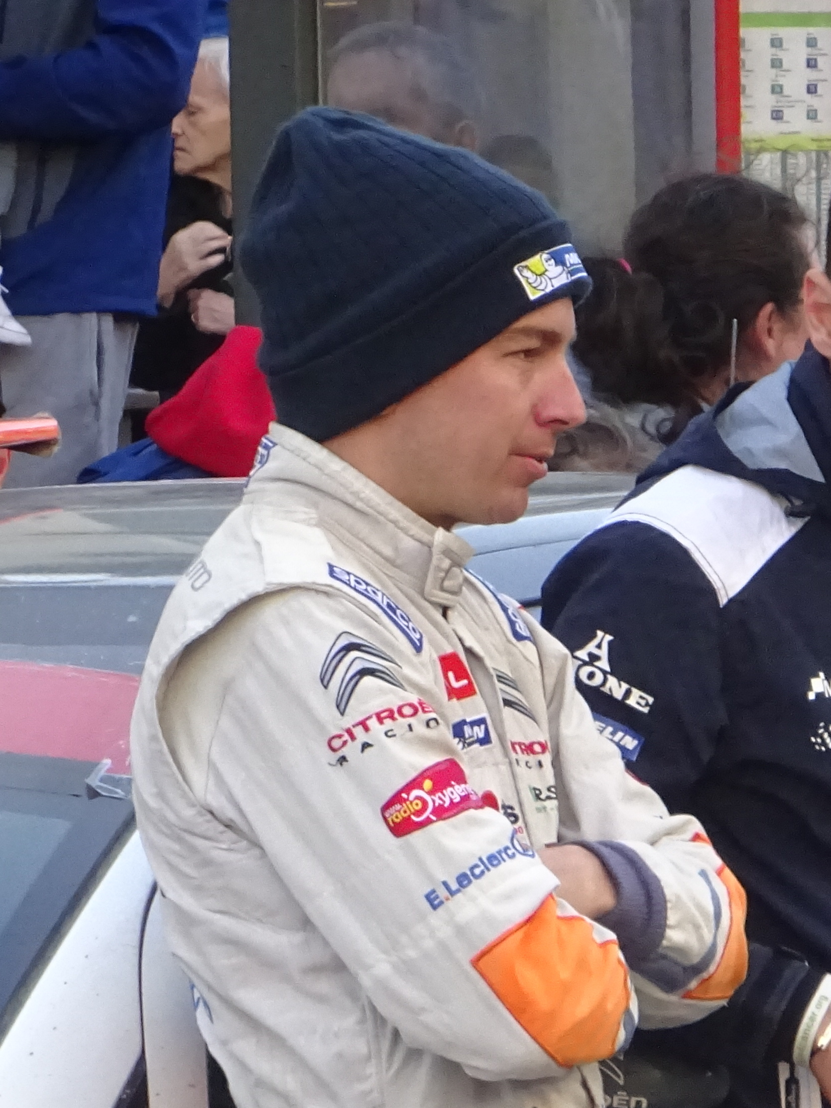 Wales Rally penultimate round of the World Rally Championship, Llandudno 2012.